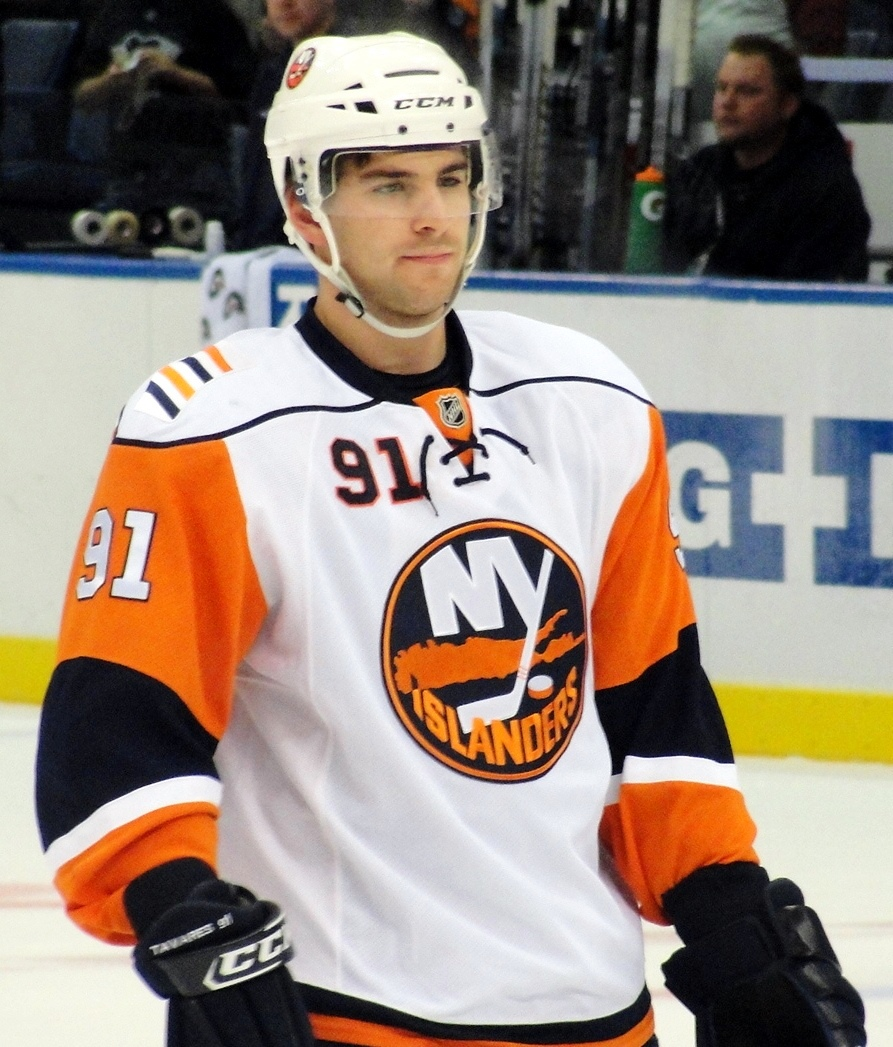 John Tavares of the New York Islanders during a November 27, 2009 game against the Pittsburgh Penguins at Nassau Veterans Memorial Coliseum in Uniondale, NY.